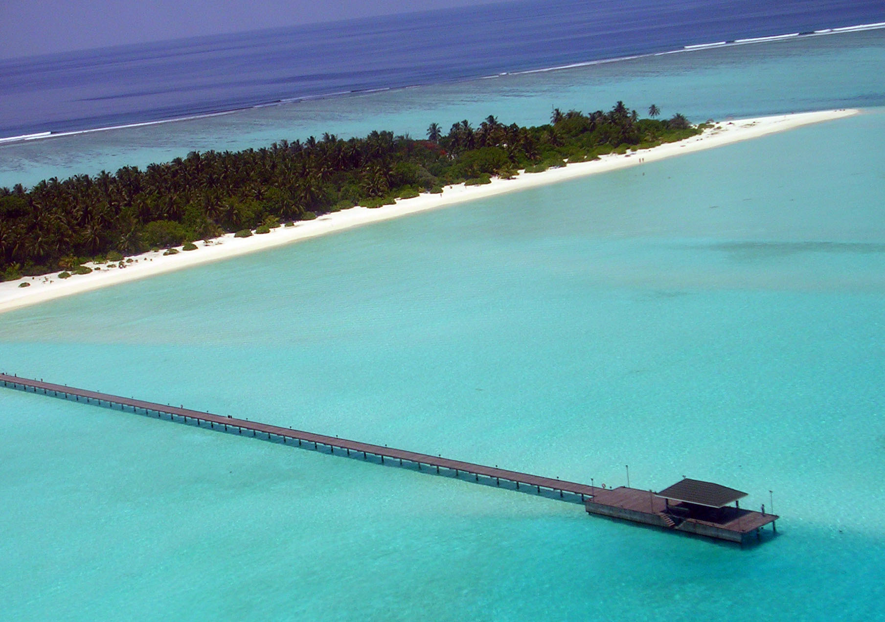 Holiday Island, view from waterplane